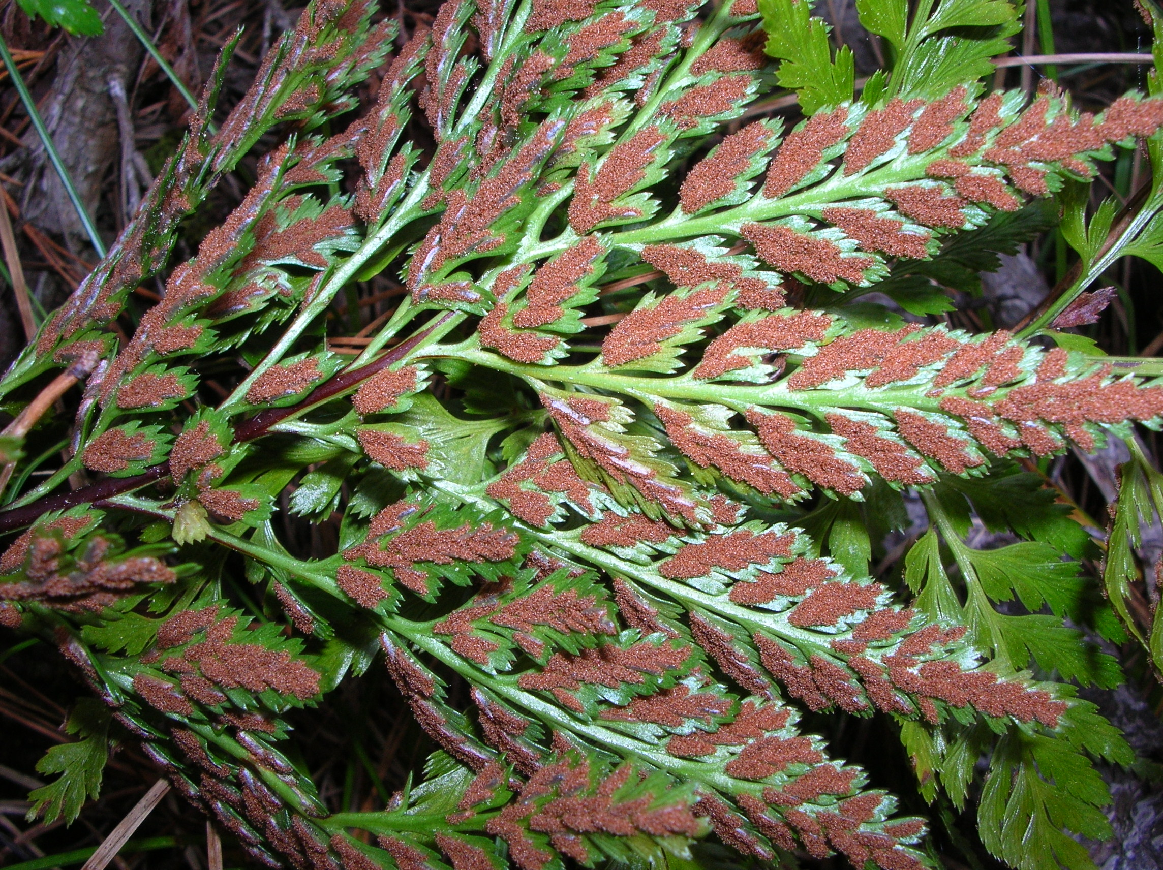 Asplenium adiantum-nigrum (sori). Location: Maui, Polipoli